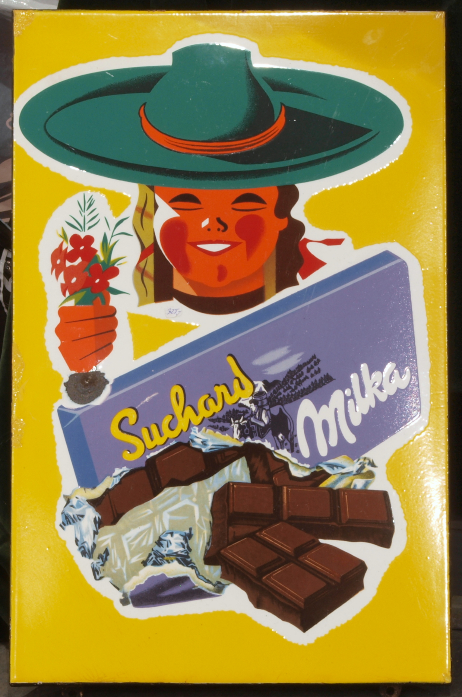 Photographed at the jaarbeurs in Utrecht.